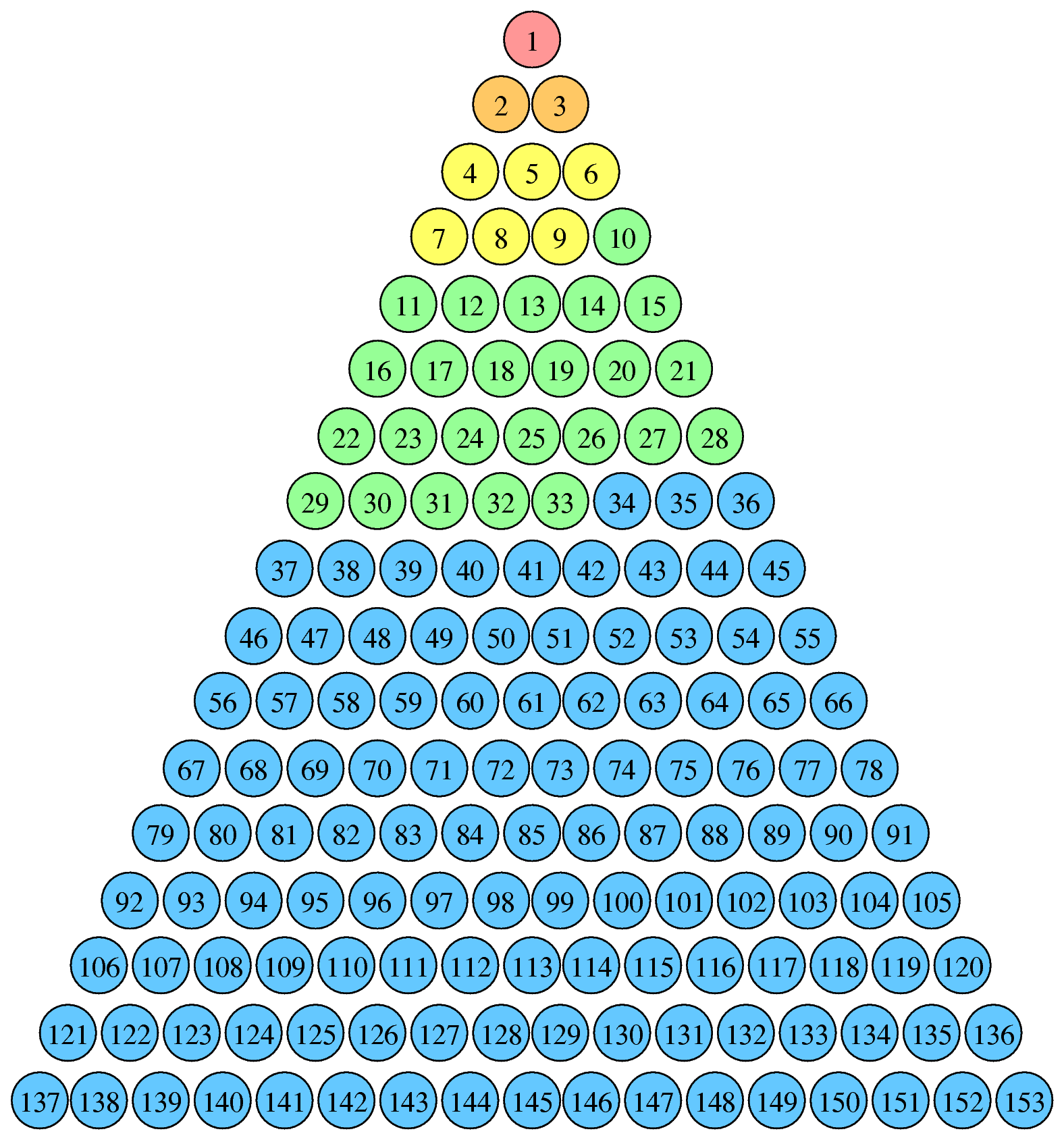 153, the 17th triangular number. with colours showing 153=1!+2!+3!+4!+5!